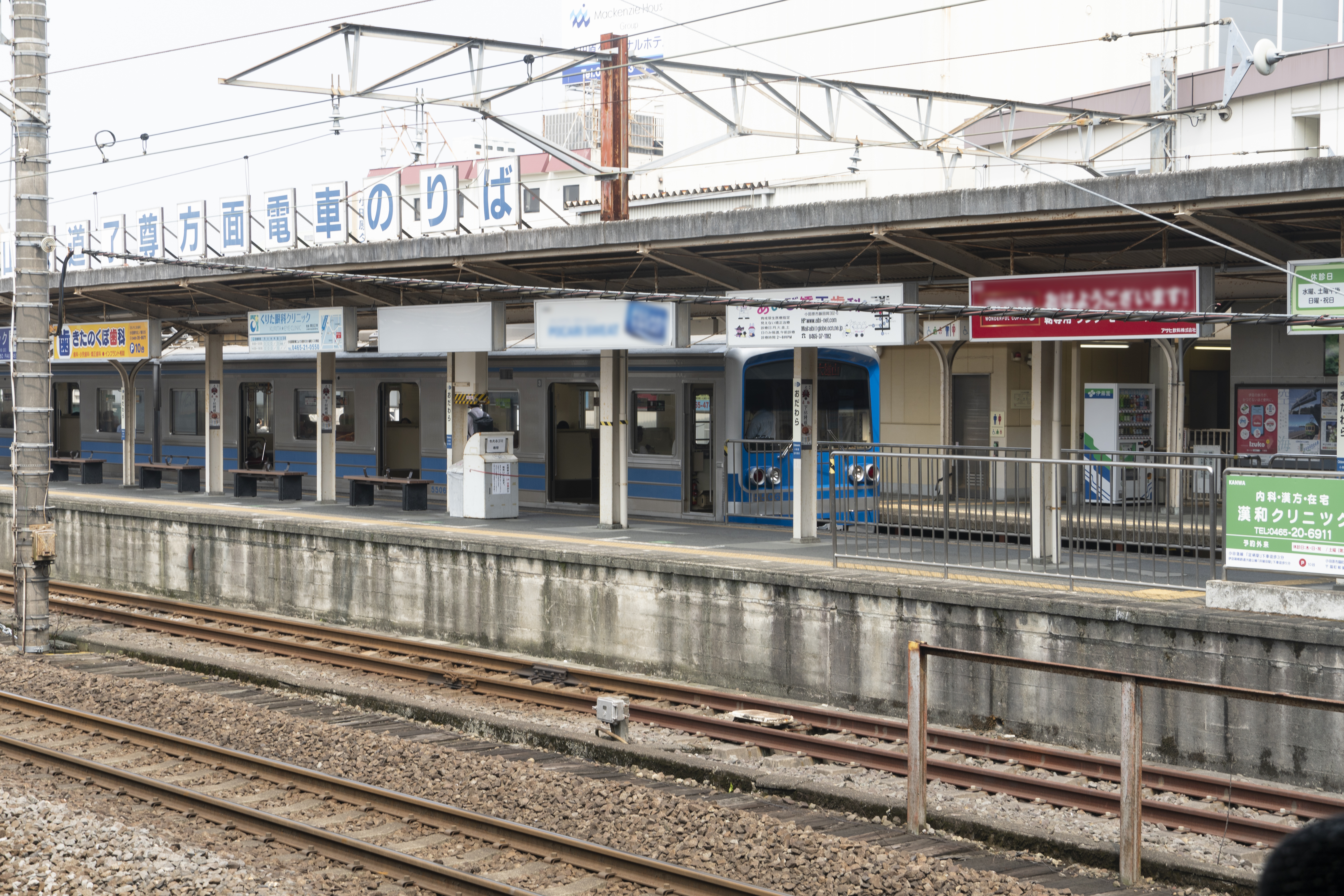 Izuhakone Railway Daiyūzan Line Odawara Station Platform